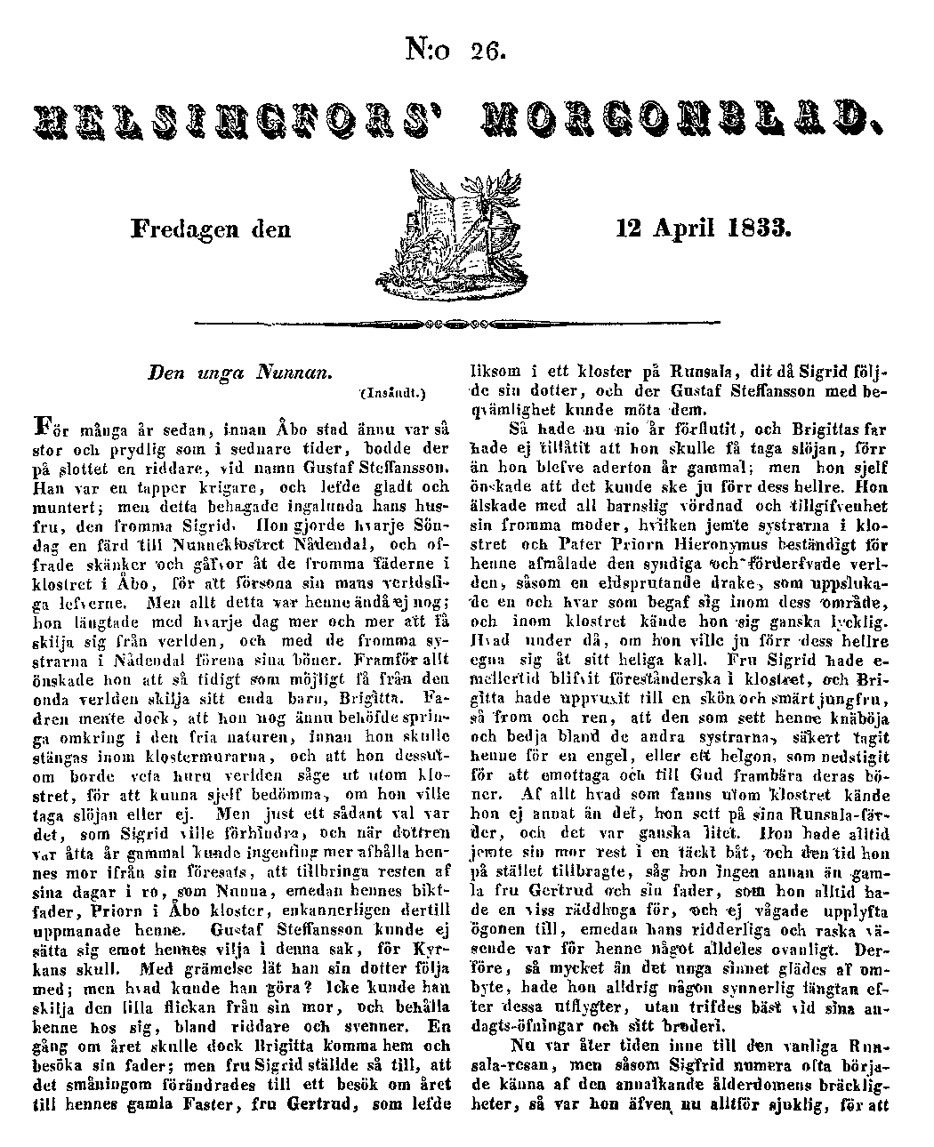 The first page of the short story Den unga nunnan (The young nun) by Fredrika Runeberg, published in the Finnish newspaper Helsinginfors Morgonblad on the 12th of April 1833.